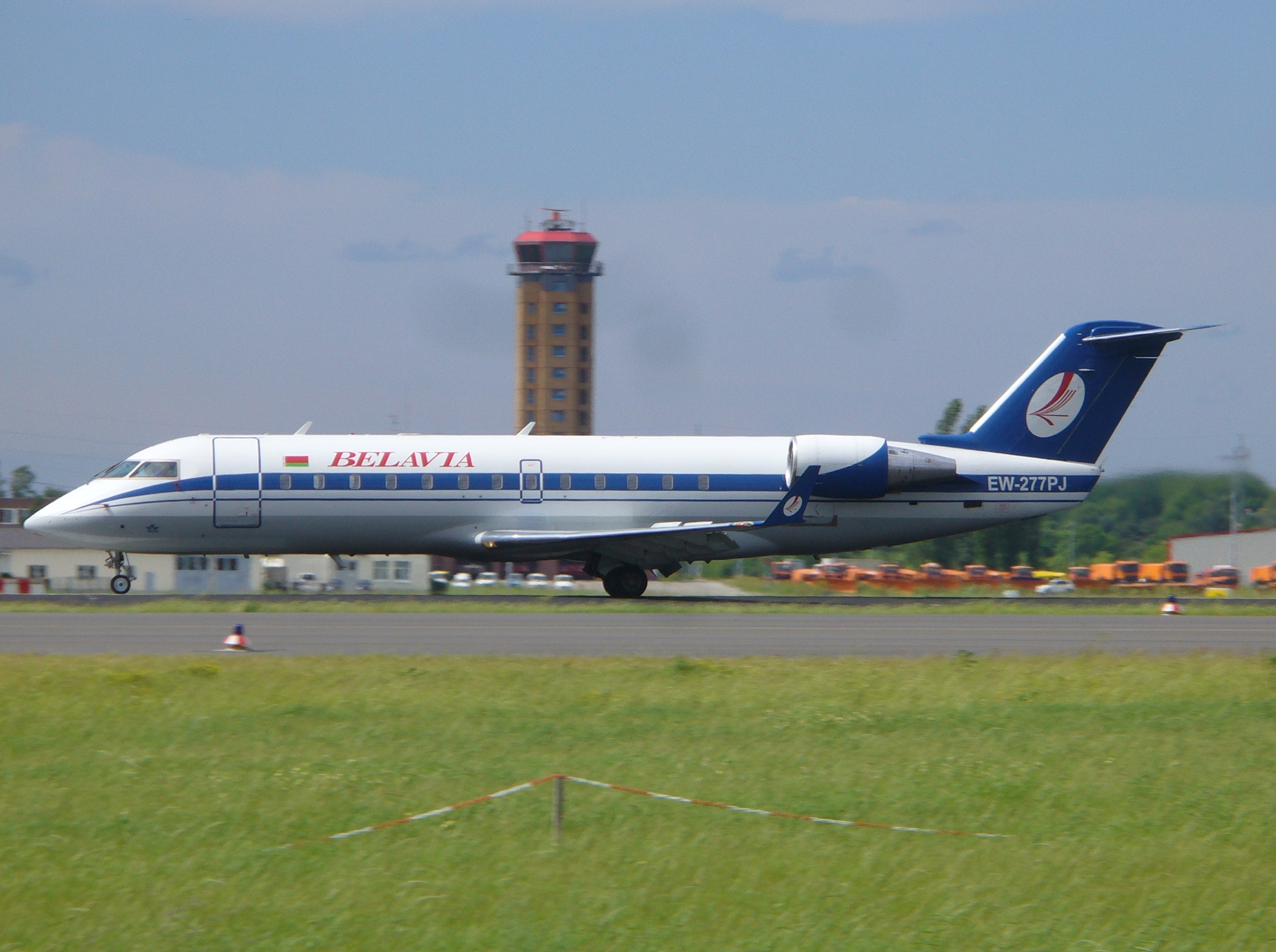 A Belavia Bombardier CRJ200 at Berlin Schönefeld Airport